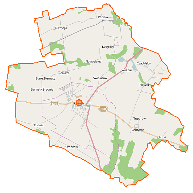 Map of Gmina Łosice, Poland This map of Łosice (gmina) was created from OpenStreetMap project data, collected by the community. This map may be incomplete, and may contain errors. Don't rely solely on it for navigation. Border coordinates52.285822.6267←↕→22.851252.1482